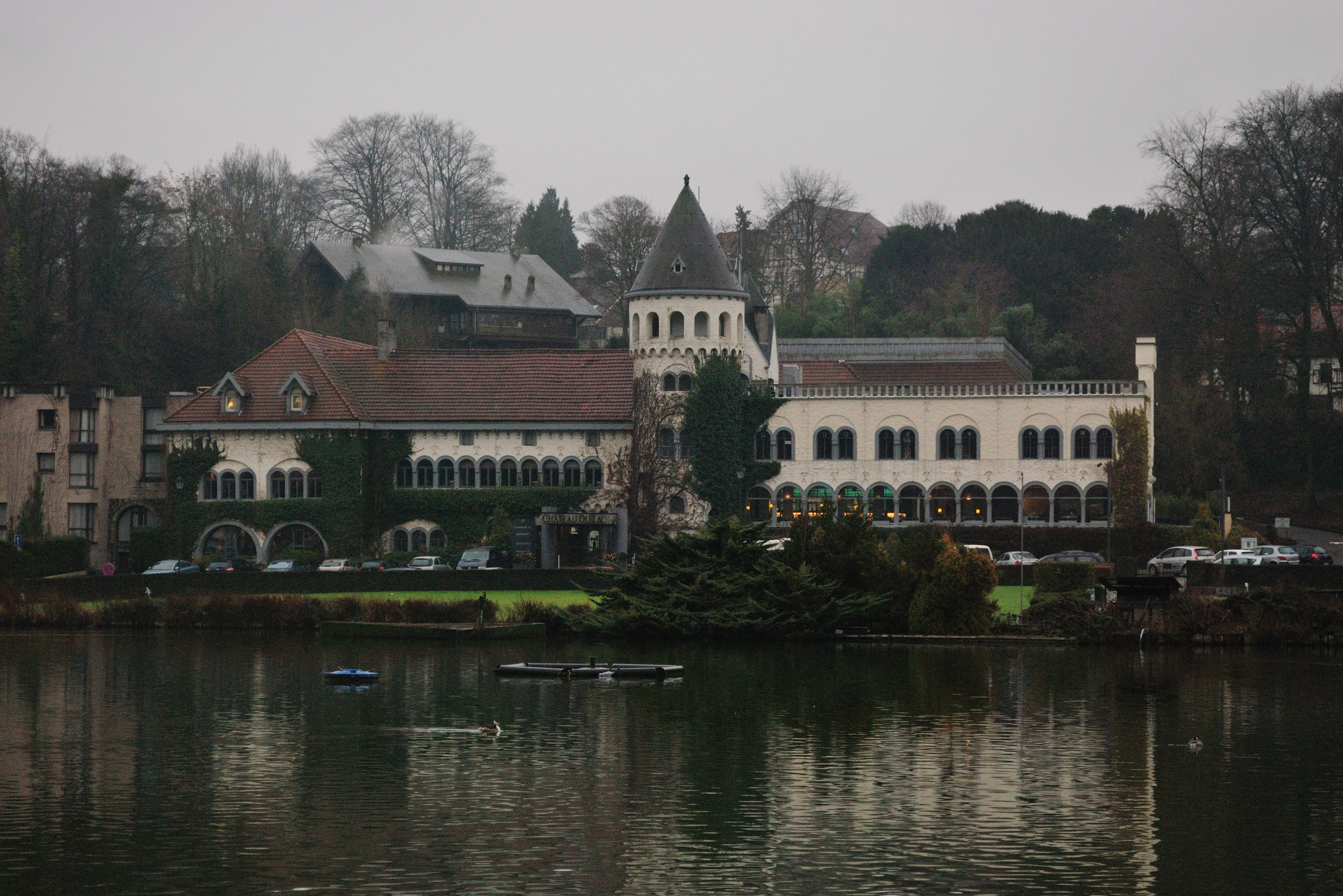 Resort "Château de Genval" by the artificial lake of Genval, commune of Rixensart, Belgium. Nikon D60 f=55mm f/6.3 at 1/125s ISO 400. Processed using Nikon ViewNX 1.3.0 and GIMP 2.6.6.